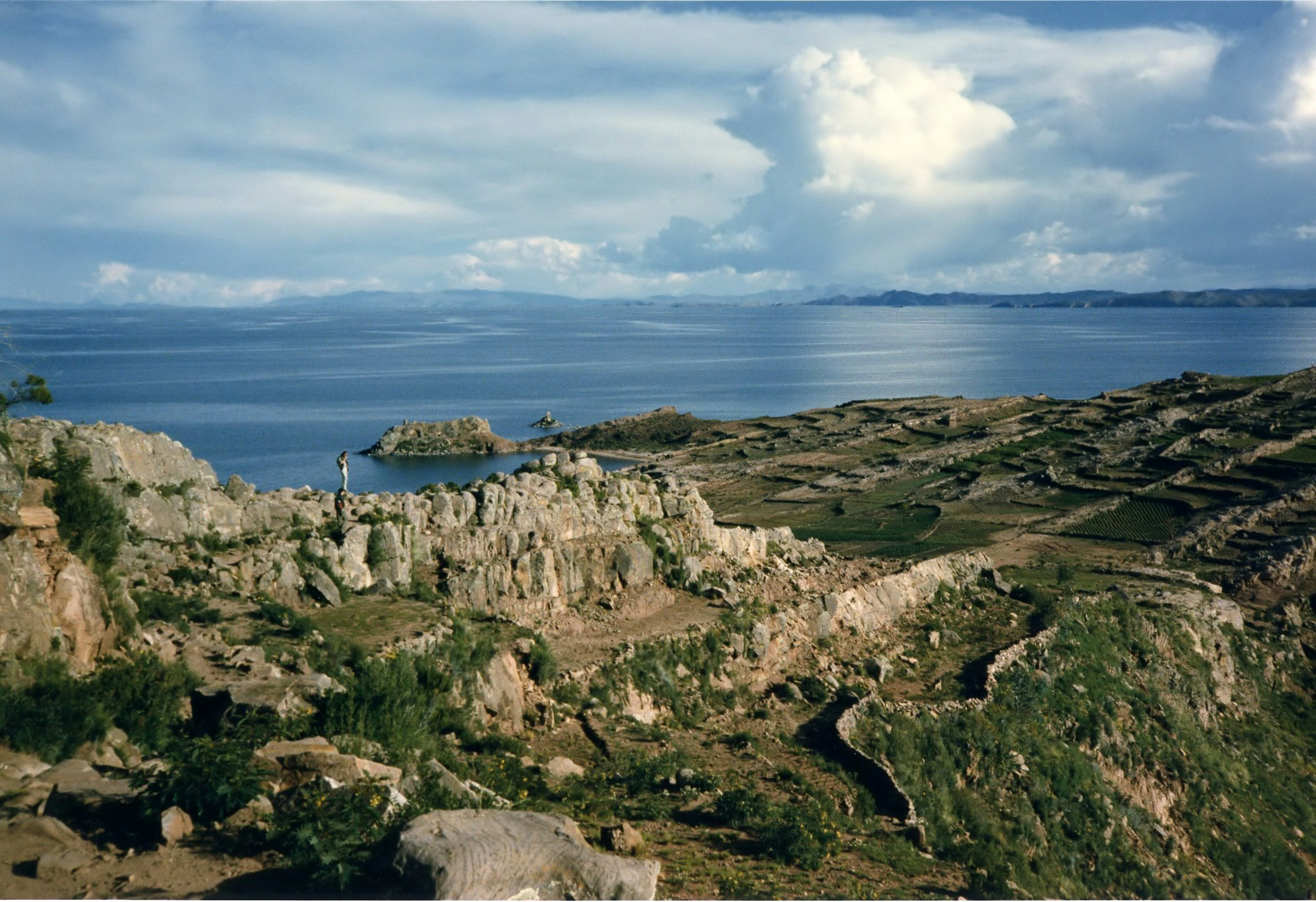 Taquile Island and Lake Titicaca, Peru